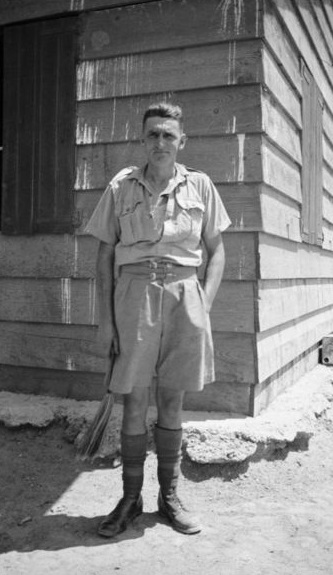 Sergeant John Hinton in Egypt during World War II. Photograph taken circa 20 October 1941 by an unidentified official photographer. Department of Internal Affairs. War History Branch :Photographs relating to World War 1914-1918, World War 1939-1945, occupation of Japan, Korean War, and Malayan Emergency. Ref: DA-02111-b-F. Alexander Turnbull Library, Wellington, New Zealand